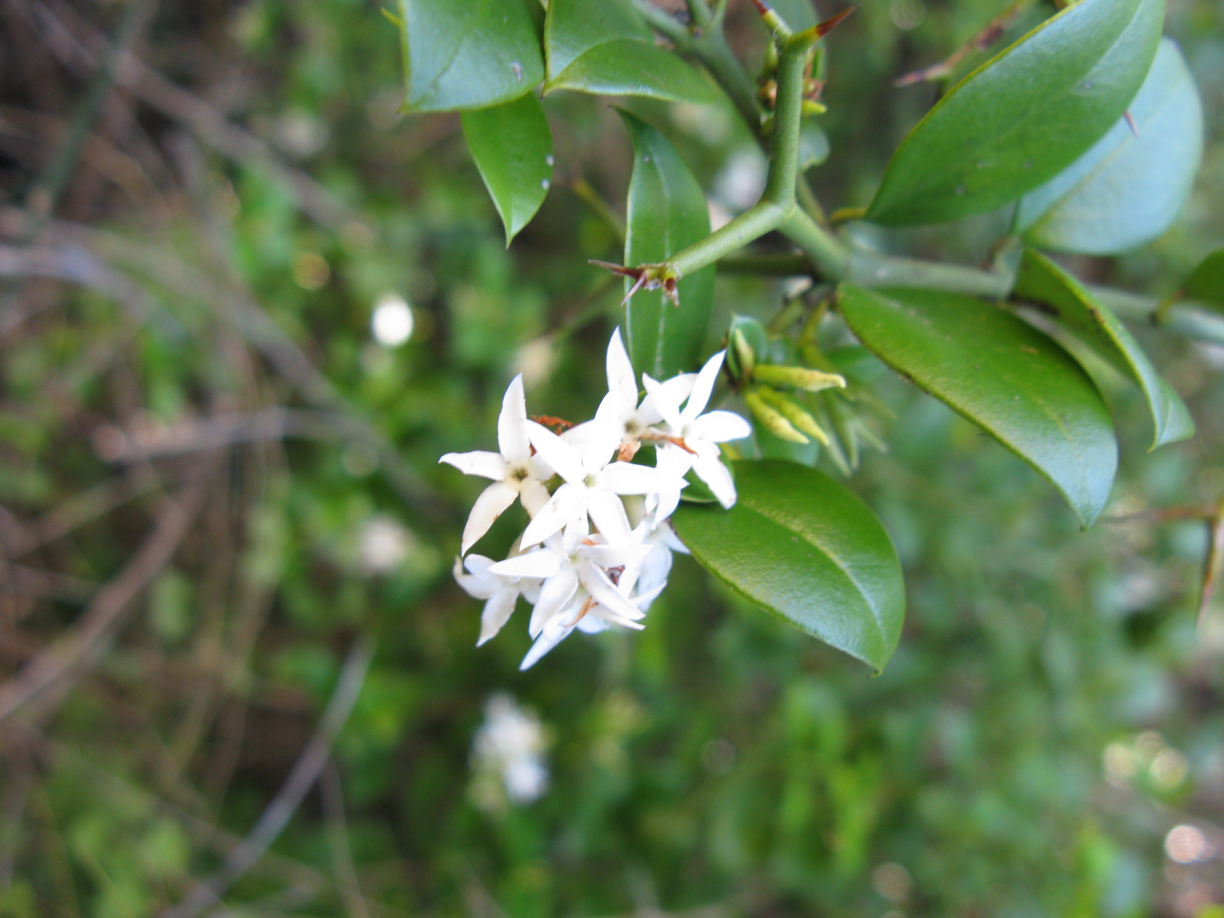 Jasmine-scented flowers on a member of the family Apocyanaceae. Fruit edible when ripe. Found in South African veld.